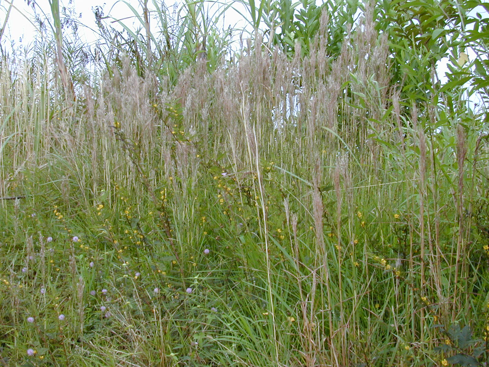 Schizachyrium condensatum (habit). Location: Hawaii, Hilo